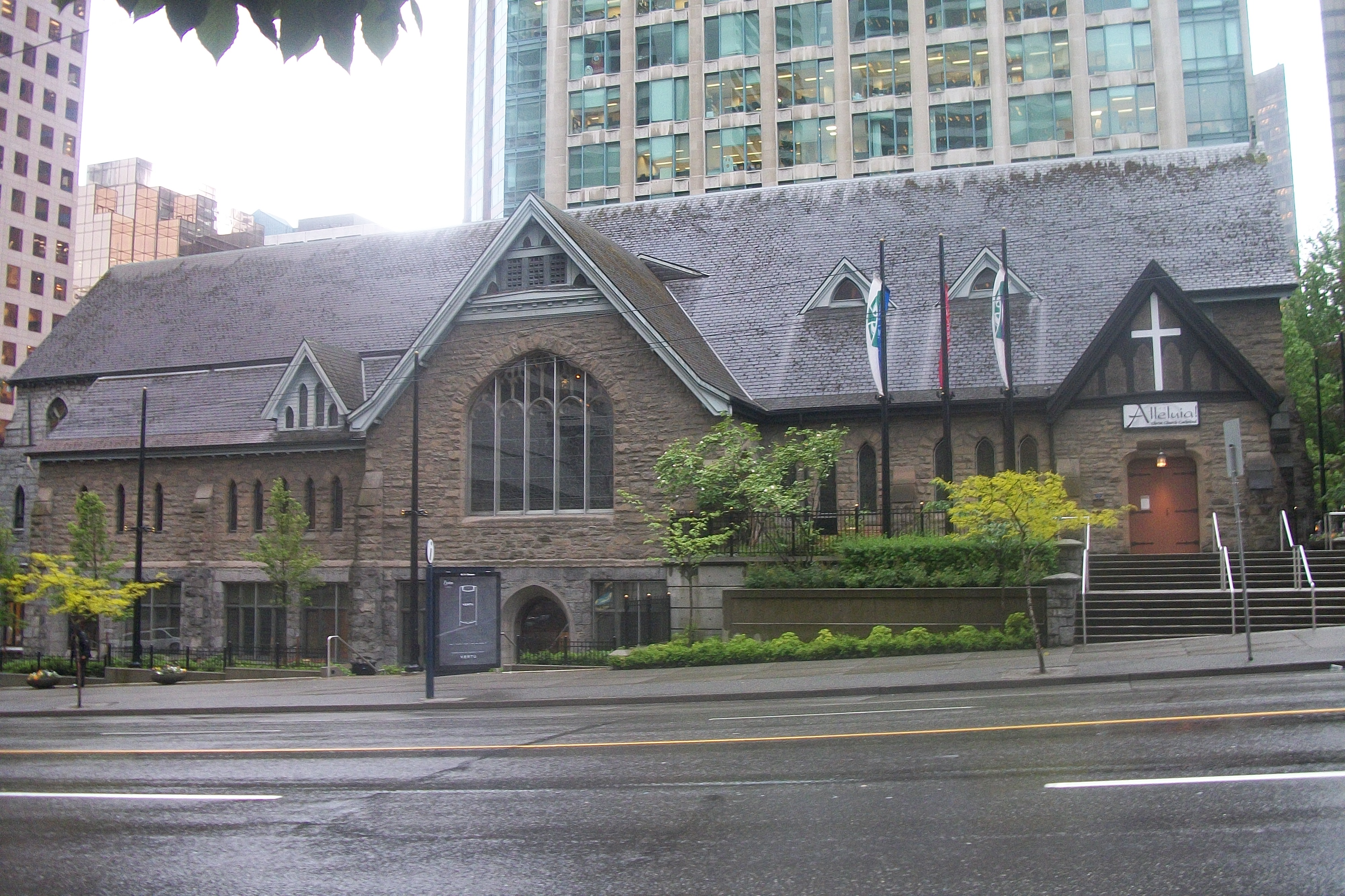 Christ Church at Burrard et Georgia St., Vancouver, BC